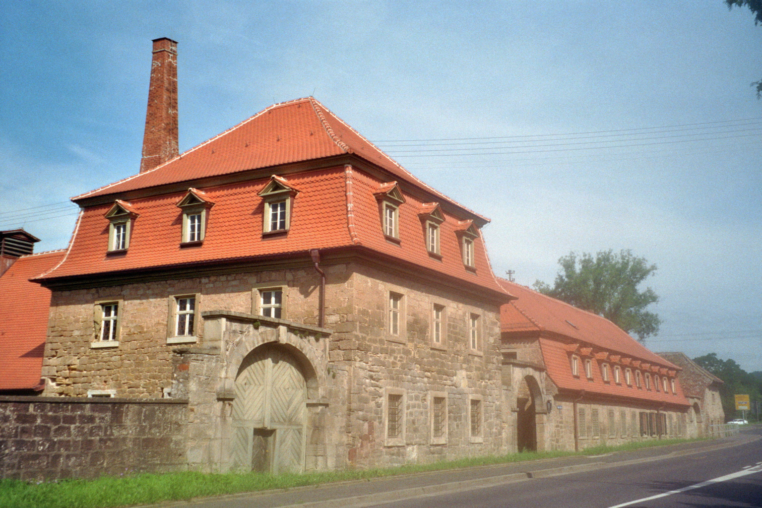 The "Untere Saline", a salina in Hausen, a quarter of the German spa town of Bad Kissingen (Lower Franconia, Bavaria).